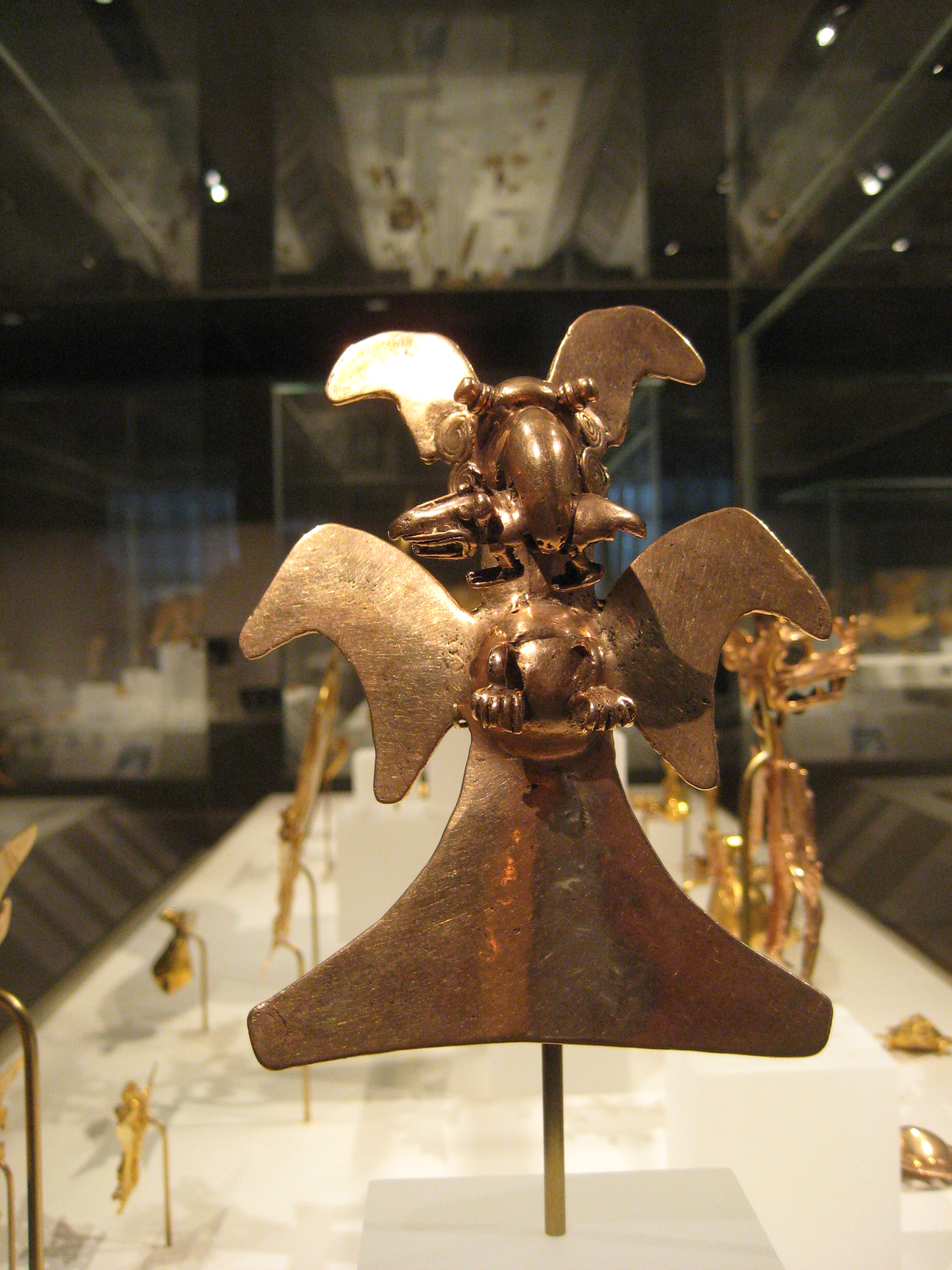 Panama or Costa Rica; Chiriqui 11th - 16th century Cast gold alloy Item number: 1978.206.906